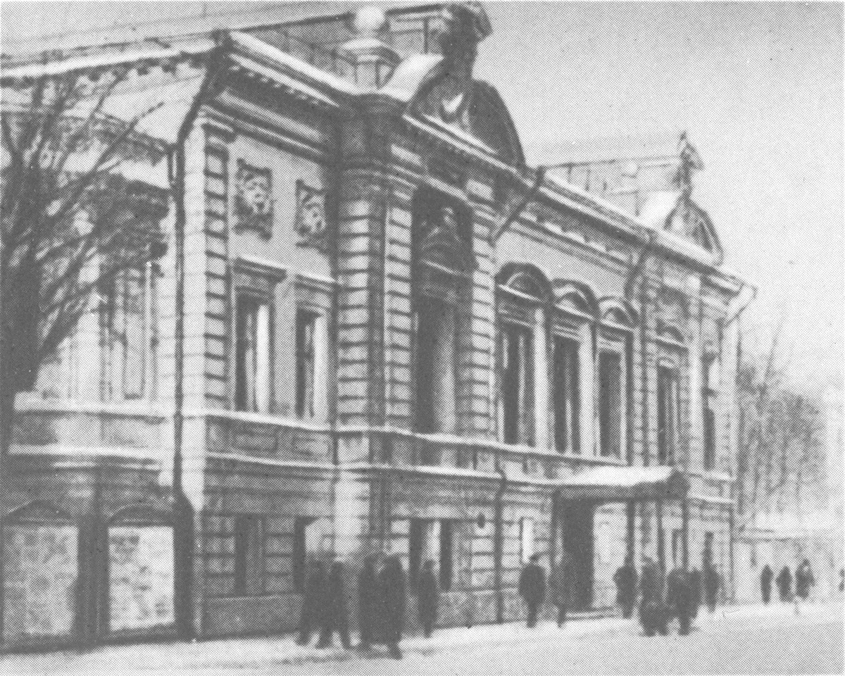 the III_studio_of MHAT